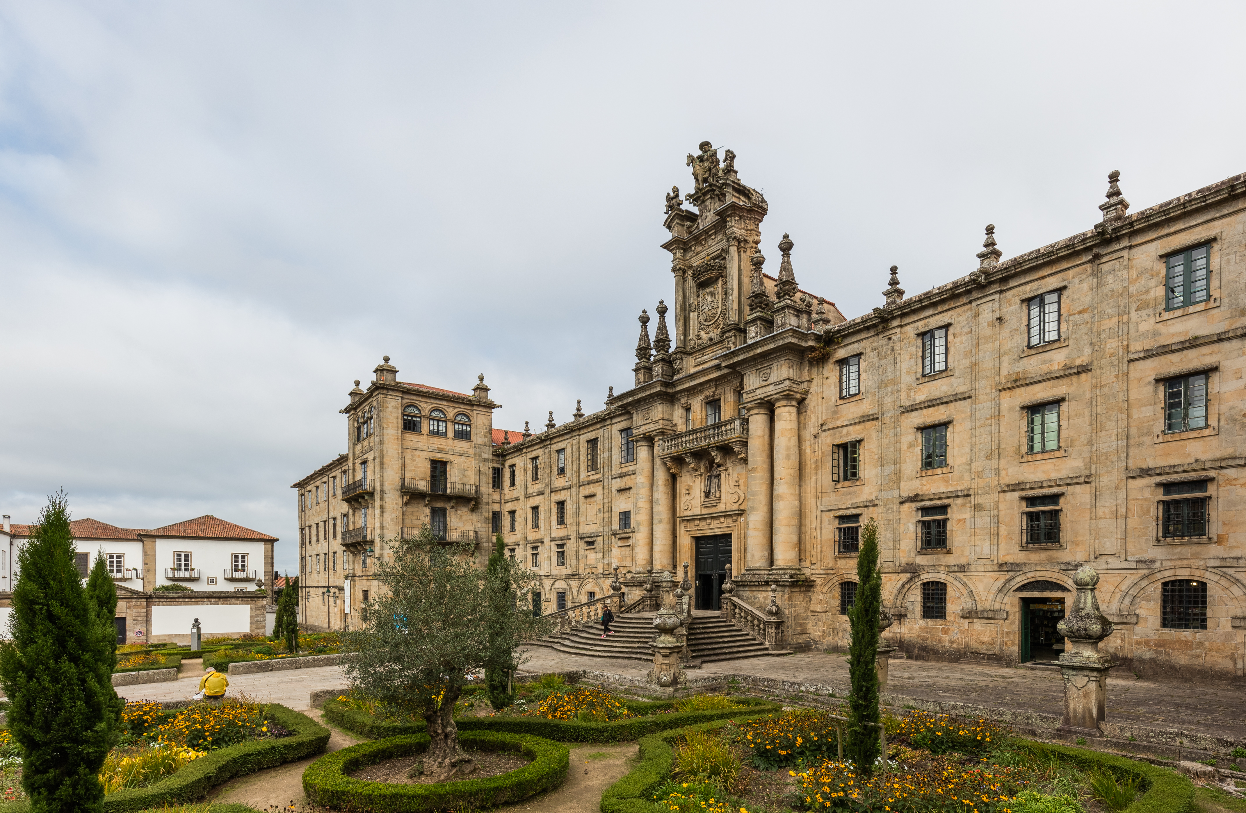 San Martin Monastery, Santiago de Compostela, Spain